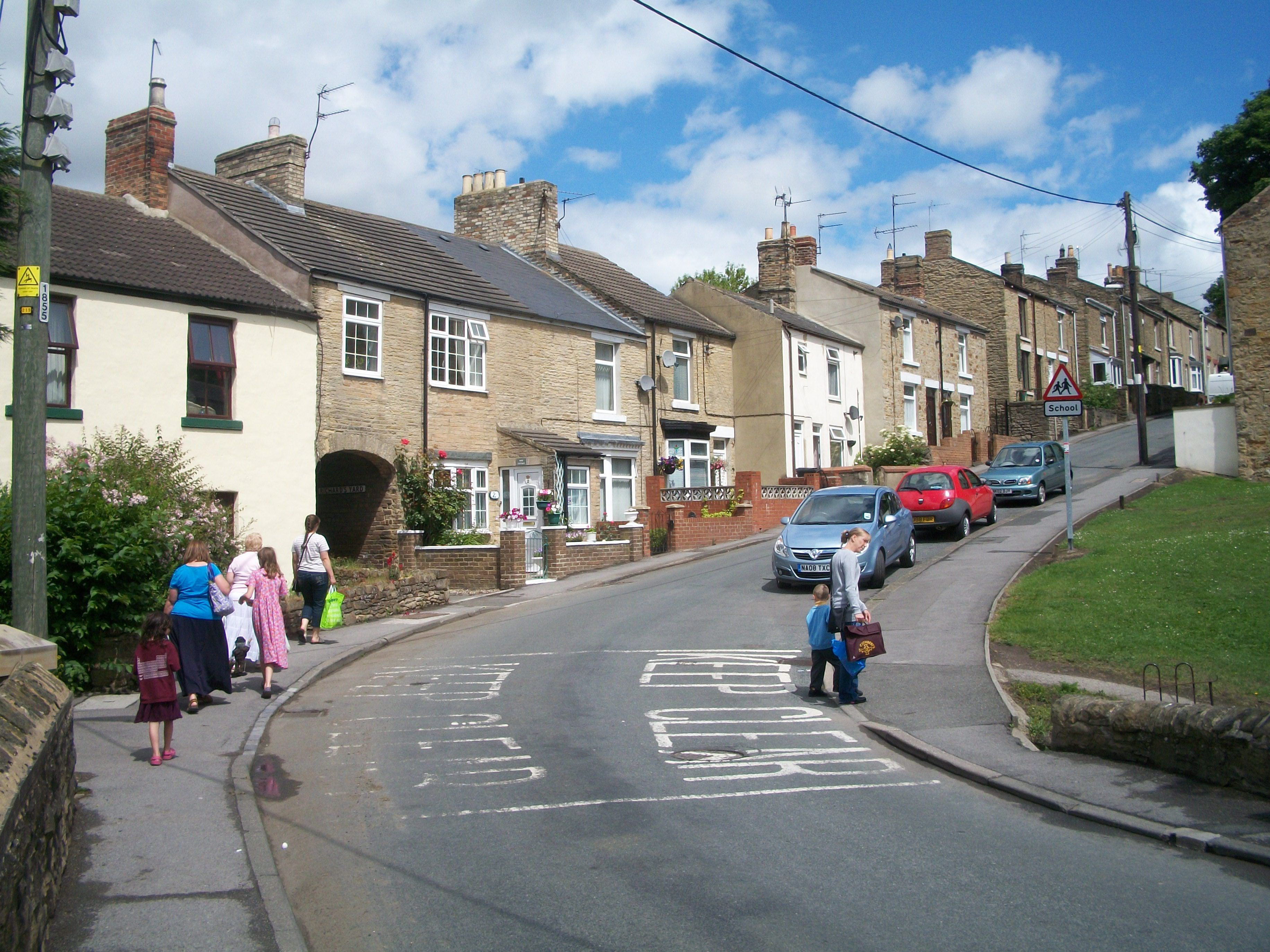 A view up Church Hill, Crook, Co. Durham